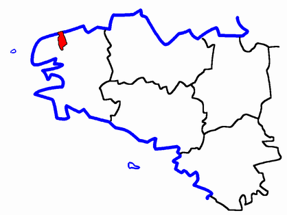 Description: Map for localisazion of cantons of Bretagne region in France Source: made by Hervé Tigier in april 2005 from another large map (published in 1990)